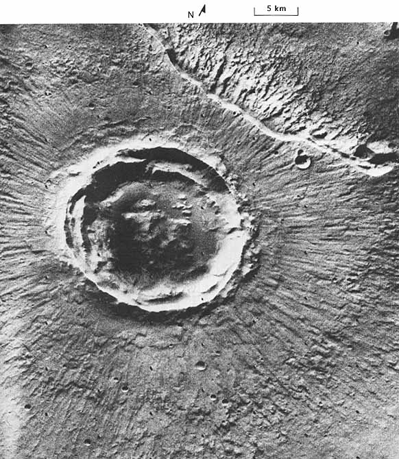 Poona, on Mars. This is a figure on p.79 of NASA SP-441: VIKING ORBITER VIEWS OF MARS, which has the following caption: Poona Crater. This crater is close to Kasei Vallis, the edge of which is marked by an escarpment in the northwest corner of the image. The ejecta have a marked radial pattern and no outer rampart. 22A54; 24°N, 52°W